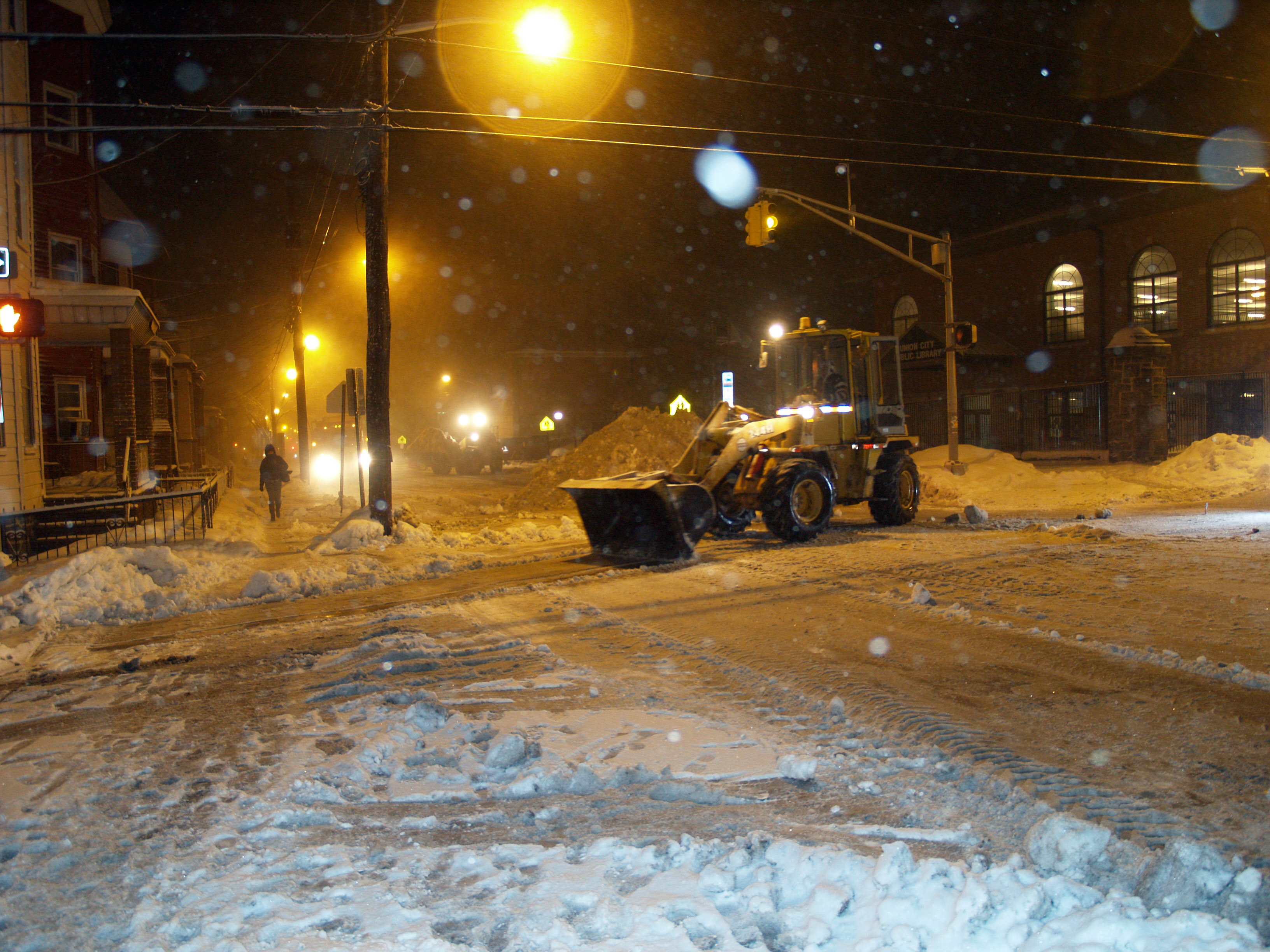 Loaders removing snow from Summit Avenue at the intersection of 18th Street in Union City, New Jersey, on the night of February 15, 2014. The street had been cleared of parked cars south of 21st Street so that crews could shovel snow from both the street and the sidewalks. This was among the last photos in this set that I took, as the wind had begun to kick up (as you can see from the closeup of snow particles in the photo), requiring me to take refuge indoors. This photo was created by Luigi Novi. It is not in the public domain, and use of this file outside of the licensing terms is a copyright violation.